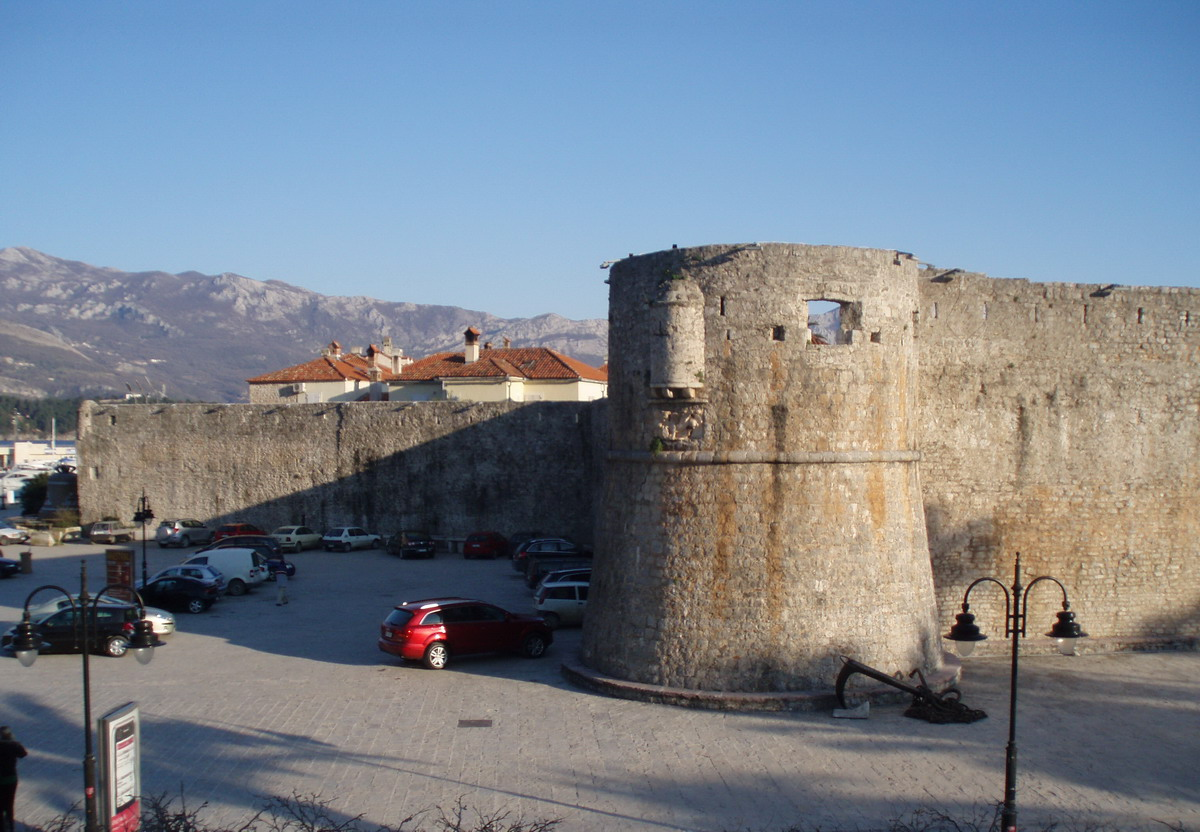 Old Town, Budva. City wall.